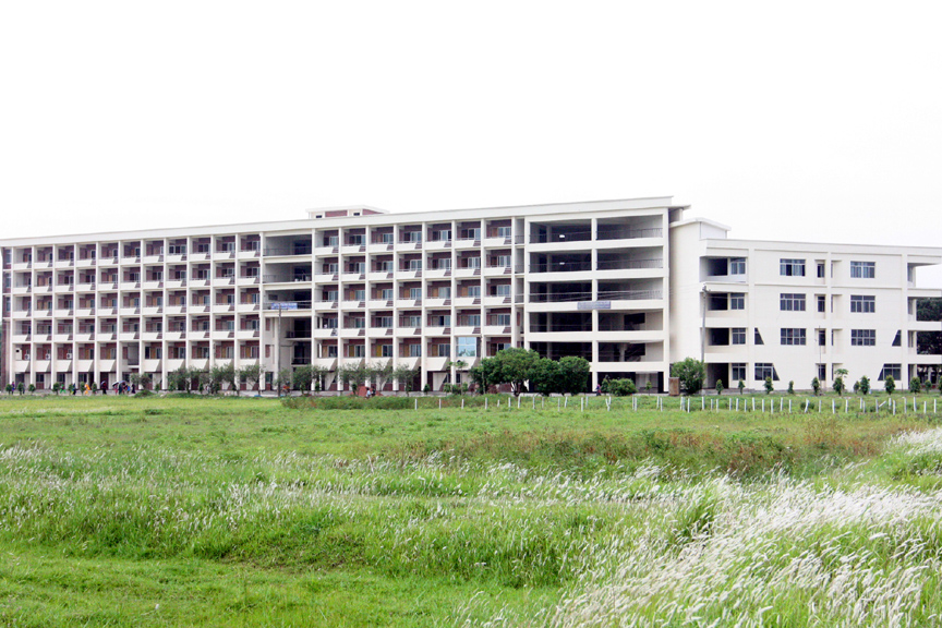 Agriculture Faculty Building, BSMRAU.